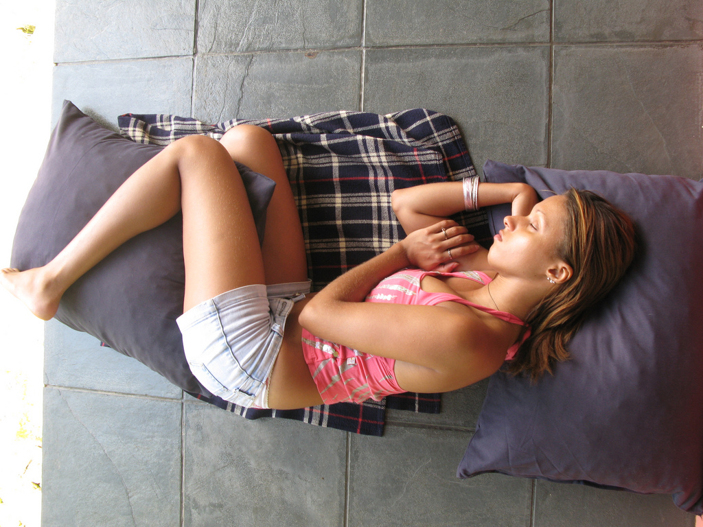 Woman sleeping on tiled floor in Rio de Janeiro, Brazil.